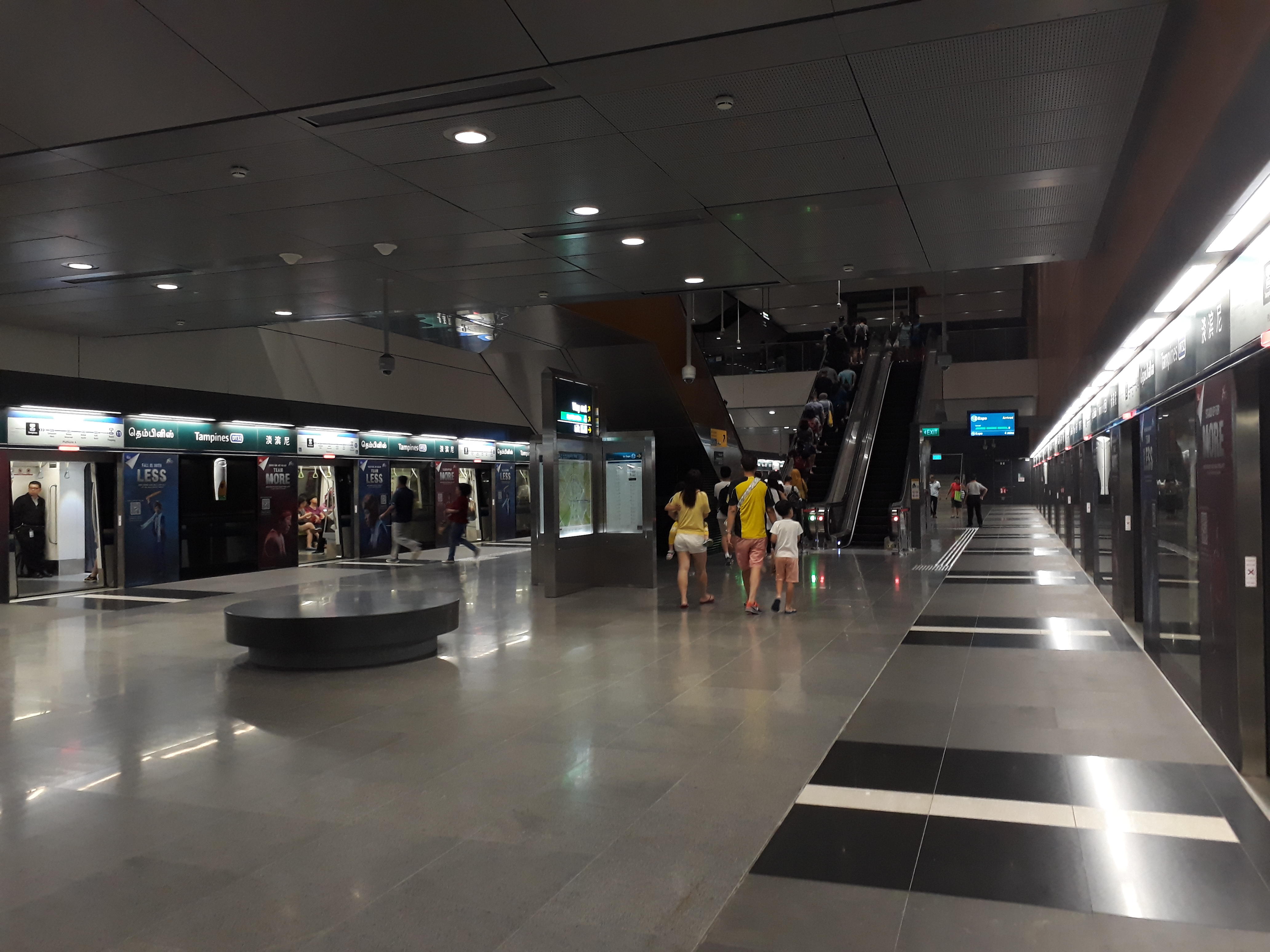 DTL Platform of Tampines